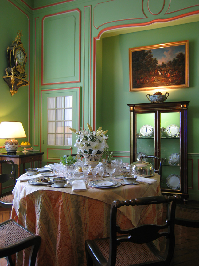 Castle of Cheverny near the town of Blois in the region Cetre of France, dining room